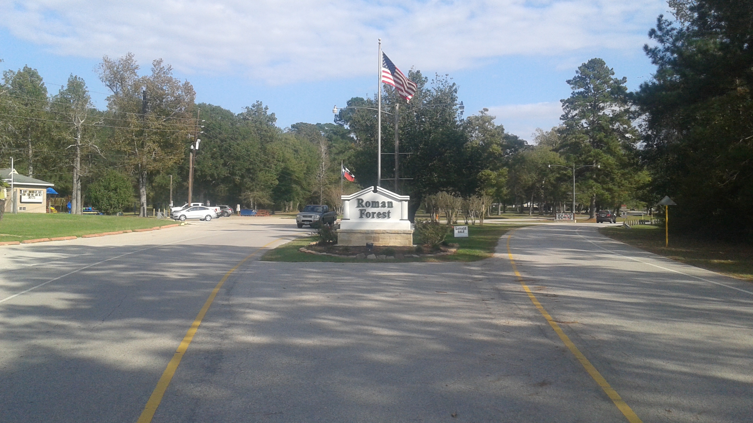 Welome sign at the entrance to Roman Forest, Texas.